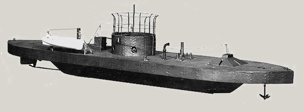 rendered image of USS Monitor taken from existing image on file here at Wikipedia